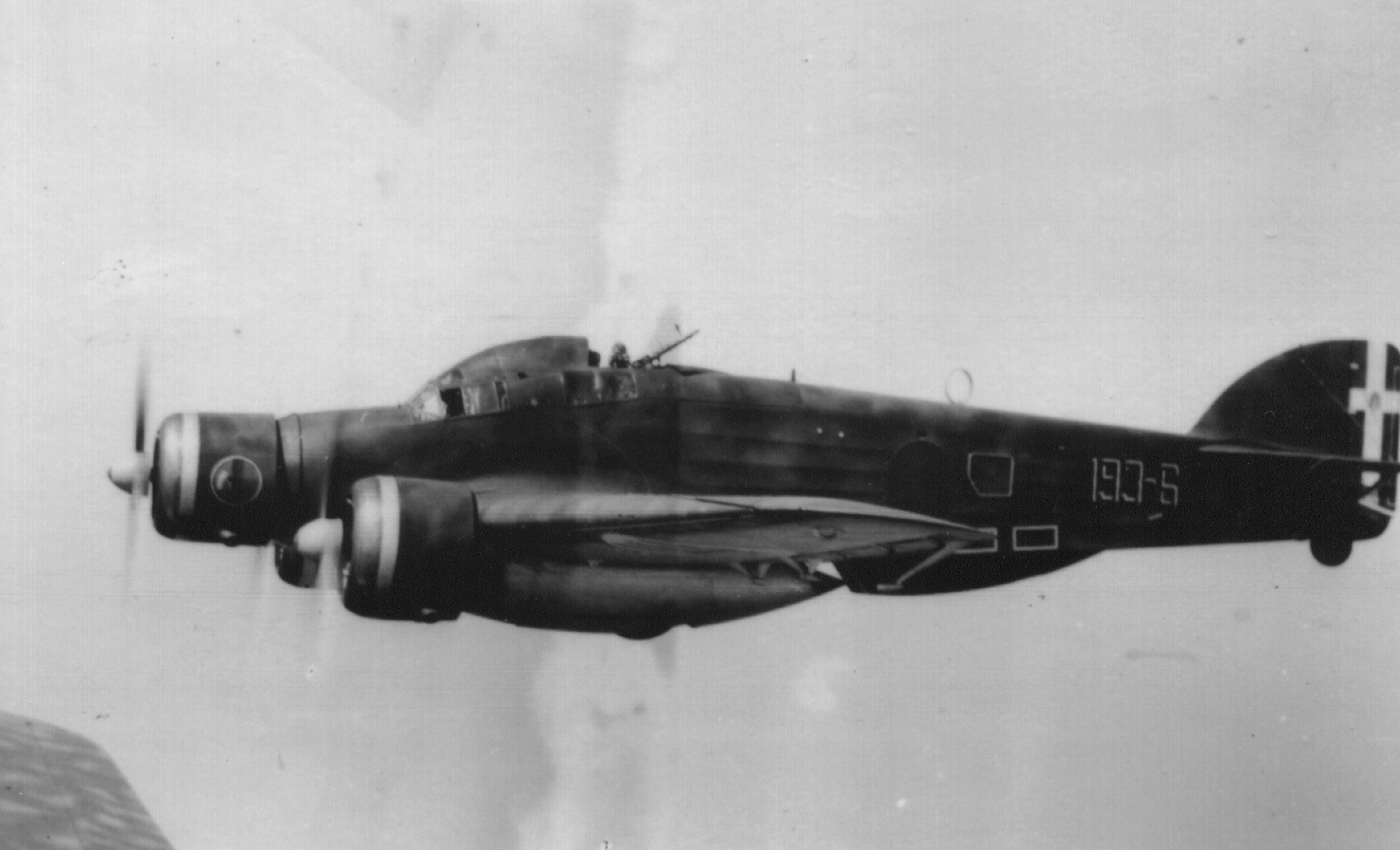 A Savoia-Marchetti S.M.79 of the 193ª Squadriglia Bombardamento Terrestre (193th Land Bombing Squadrilla), 87º Gruppo (87th Group), 30º Stormo (87th Wing). From the private archive of Riggio family.